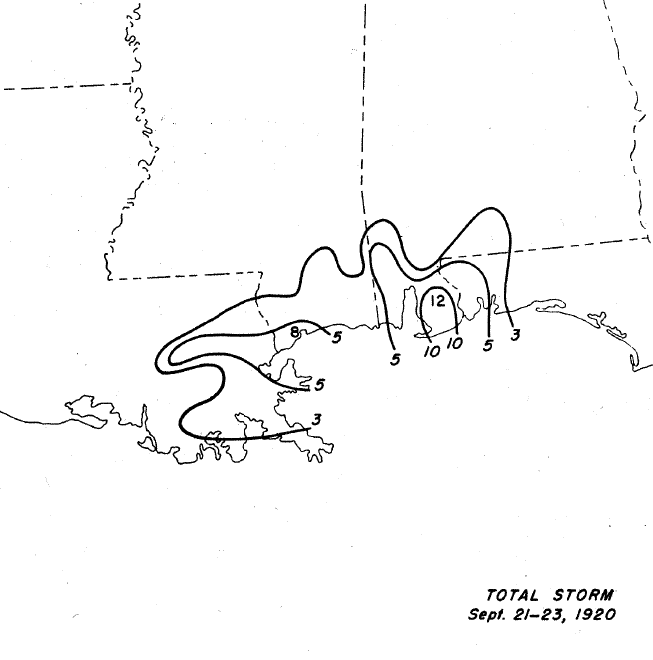 Rainfall totals from Hurricane Two of the 1920 Atlantic hurricane season.